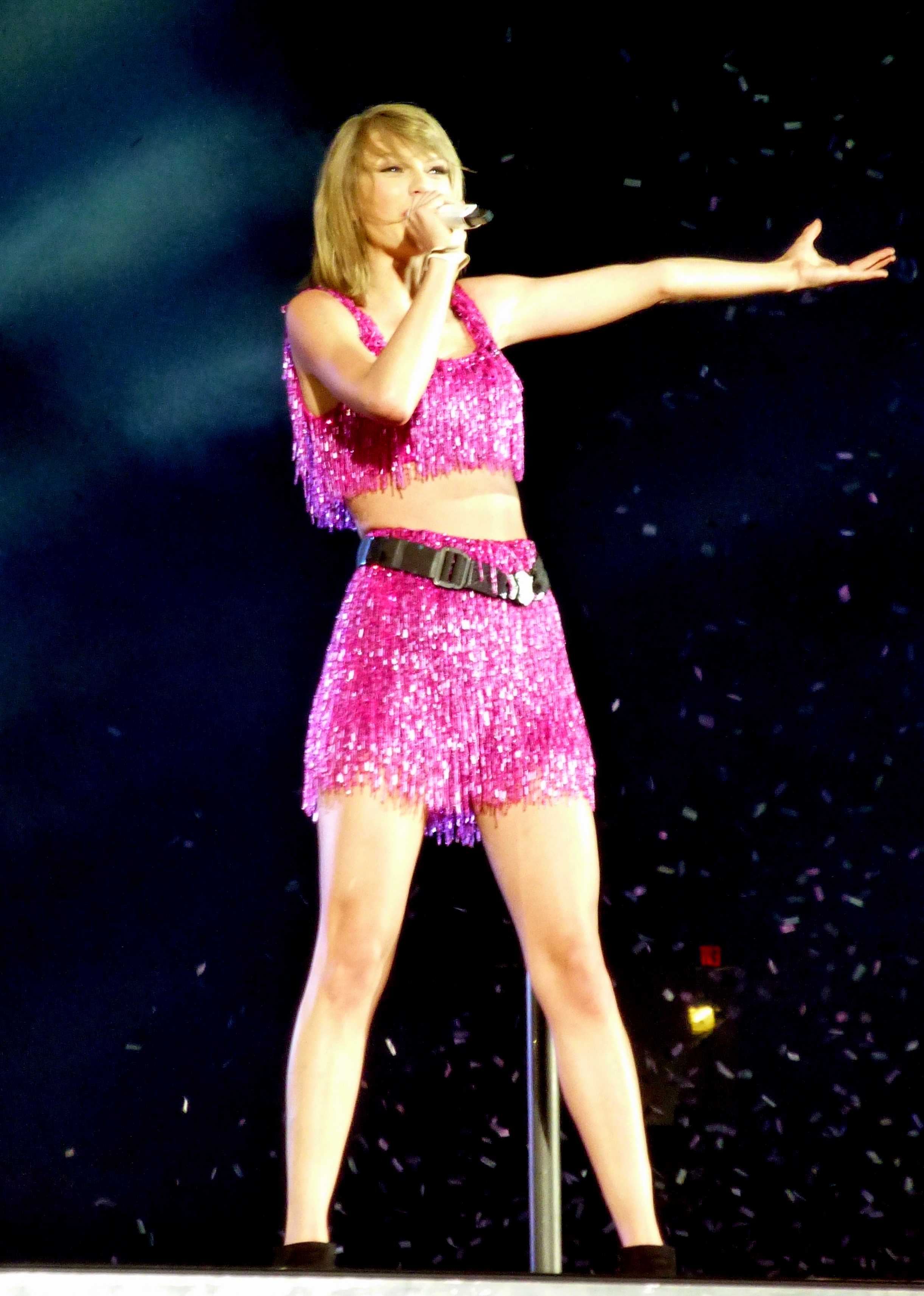 Taylor Swift 1989 Tour at Ford Field in Detroit, 5/30/15